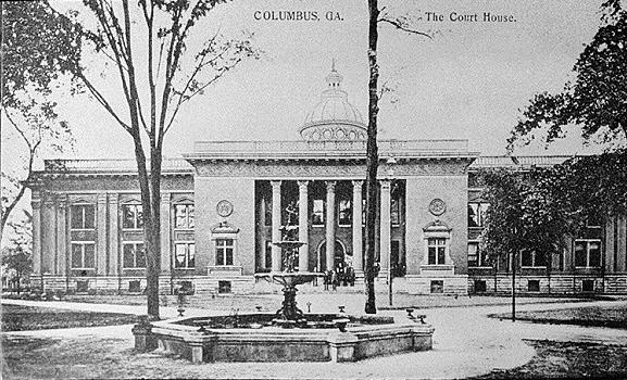 A picture of Columbus in the 1940s.